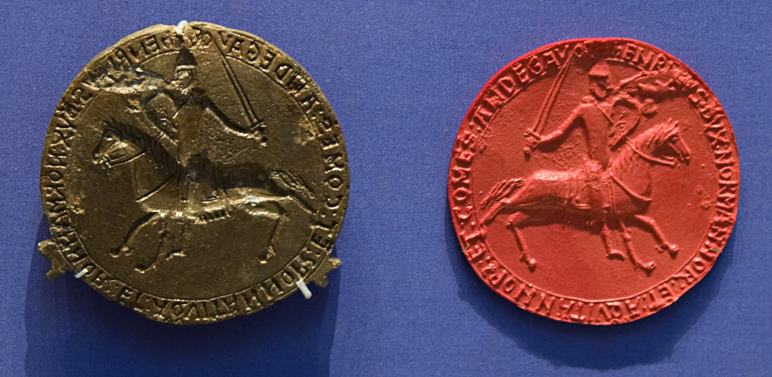 Medieval English seal now in the British Museum. Tag on exhibit reads: "Fake seal of Henry II" and "About 1170-1200. England. Lead. PE 1854,0719.1 Given by Captain Duncomb" See BM database entry for more details.